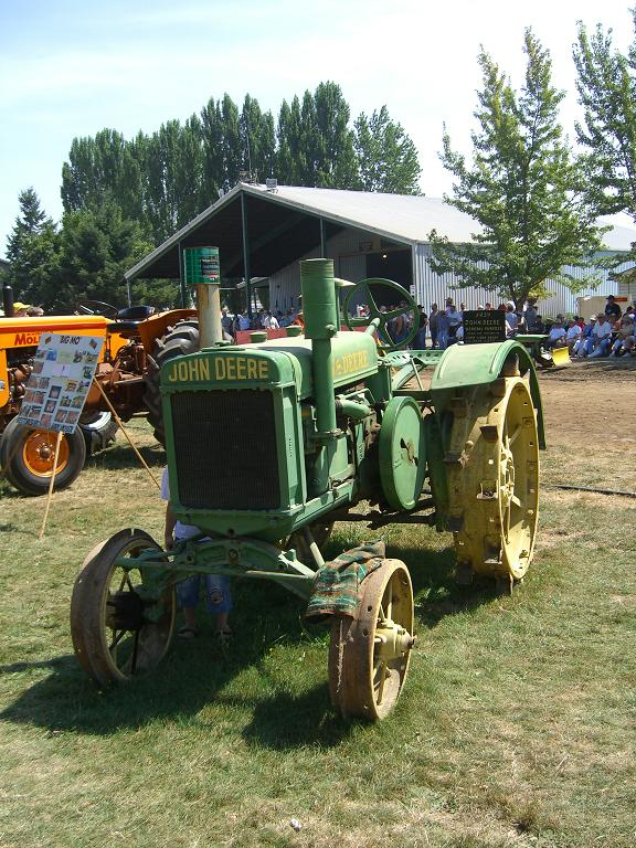 Antique John Deere tractor (Model "GP"), taken at Antique Powerland, USA.